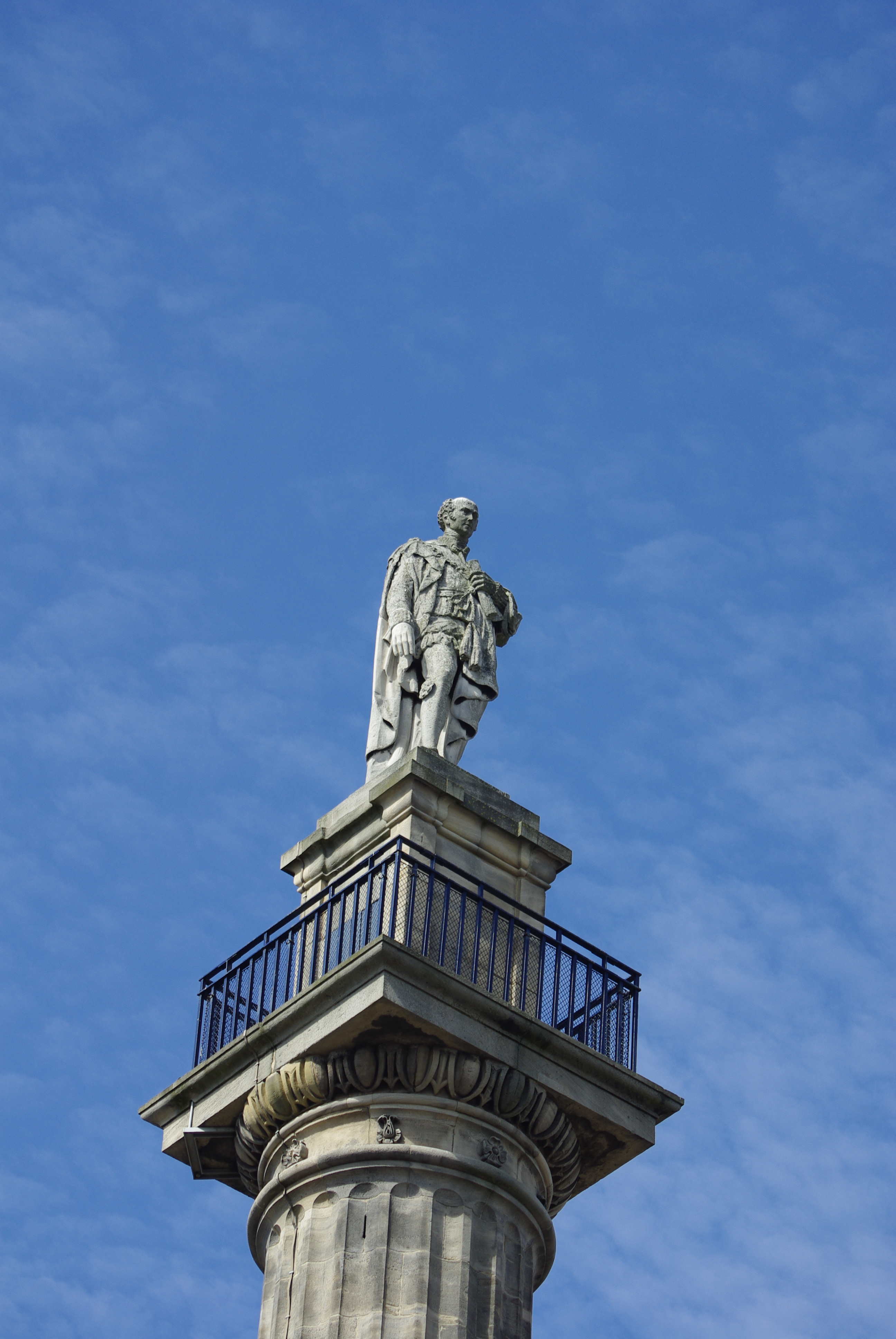 A picture of Grey's Monument in Newcastle, UK.